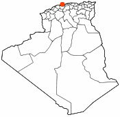 Blank map of the provinces of Algeria with a red city locator dot. Made by User:Escondites, blank version by User:Golbez.